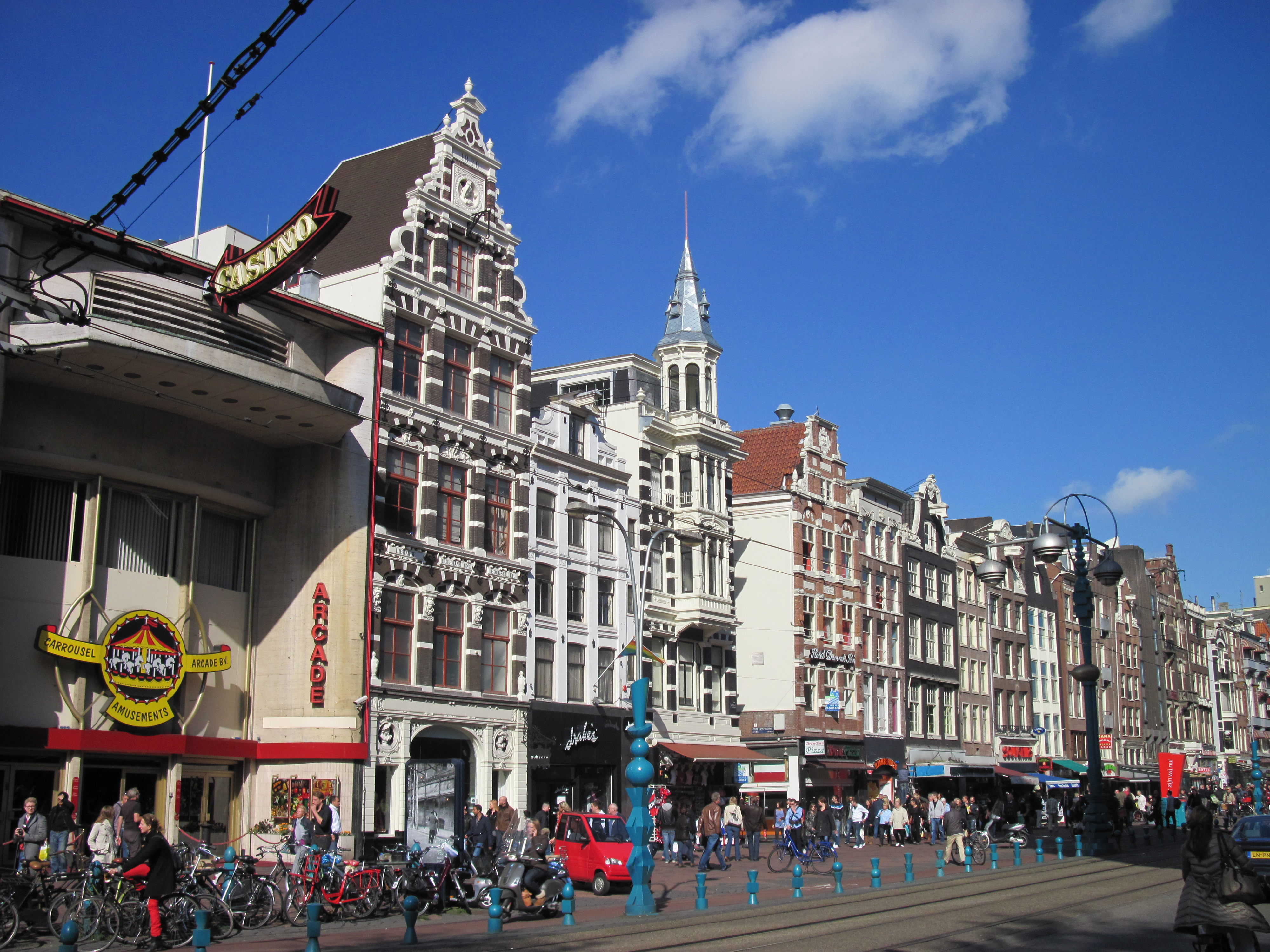 Damrak